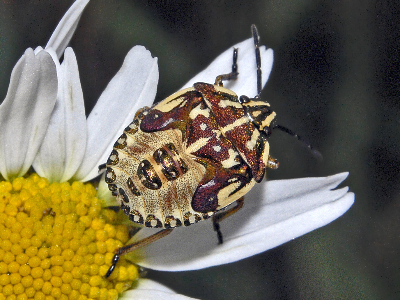 Nymph of Carpocoris purpureipennis. Val Veny, Aosta, Italy